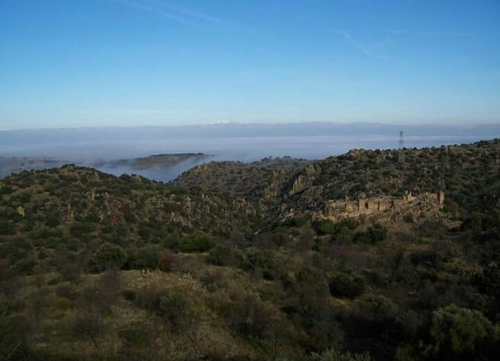 Ciudad de Vascos from the external wall of the settlement, with the alcazaba ( citadel) in the down side of the picture